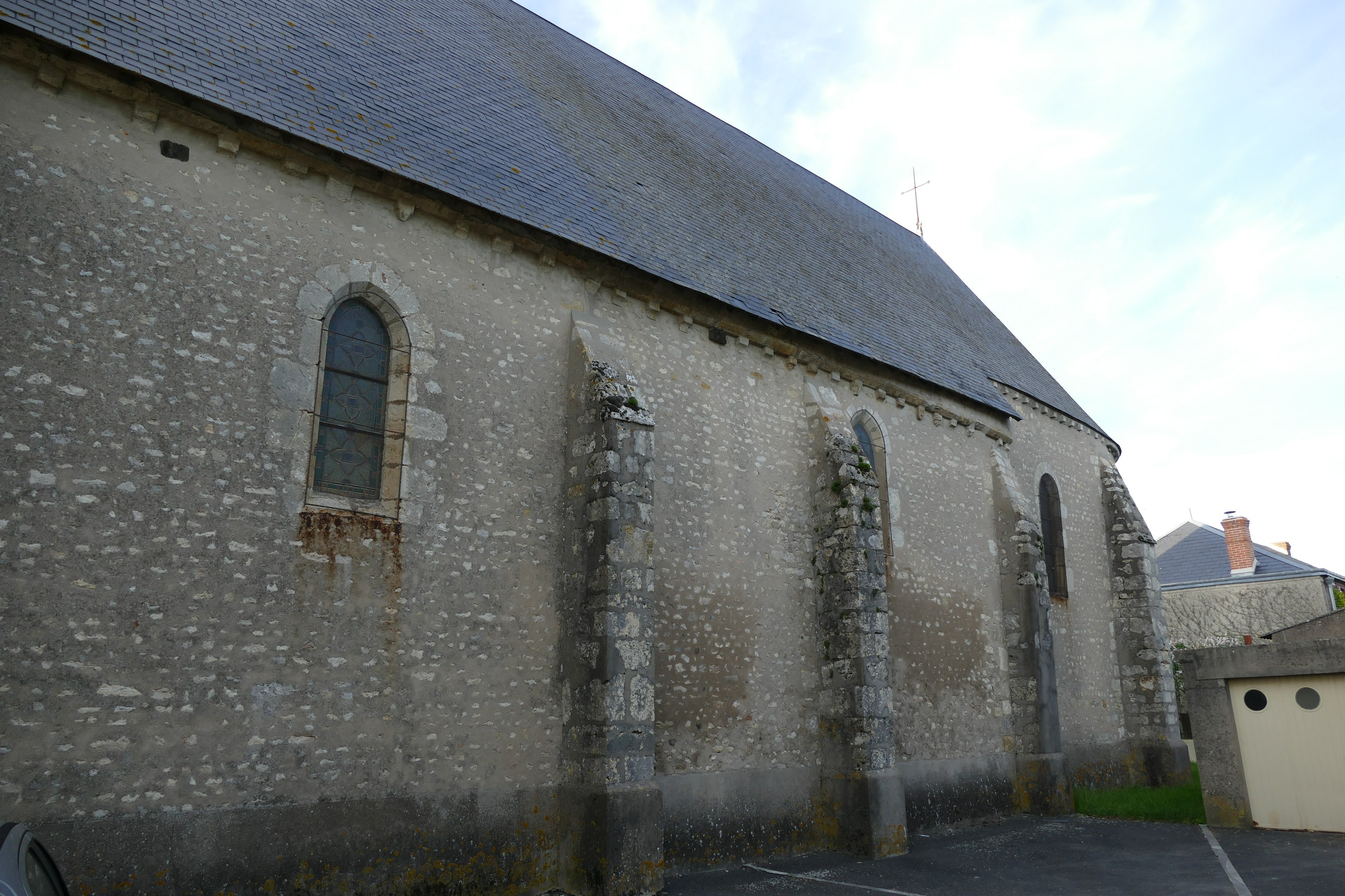 Saint-Peter-ès-Liens' church in Greneville-en-Beauce (Loiret, Centre-Val de Loire, France).